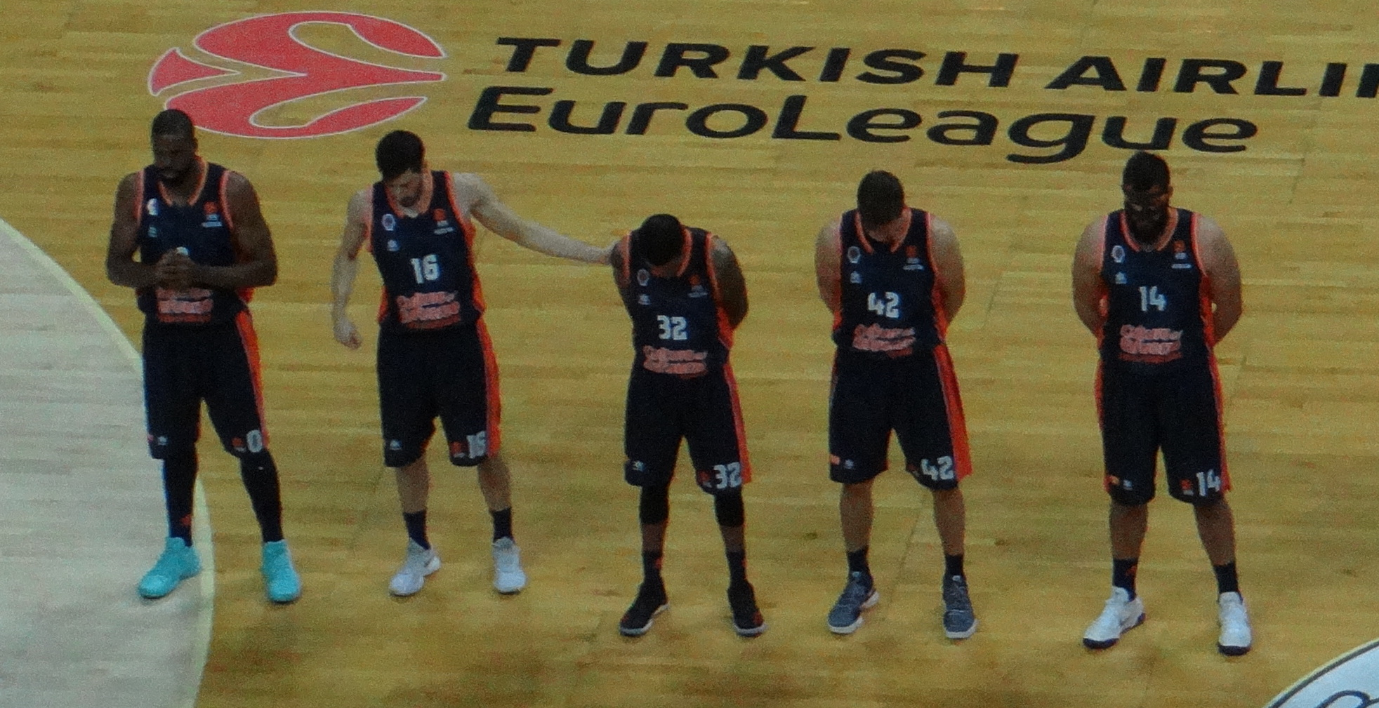 Fenerbahçe Men's Basketball vs Valencia Basket Euroleague 20171102